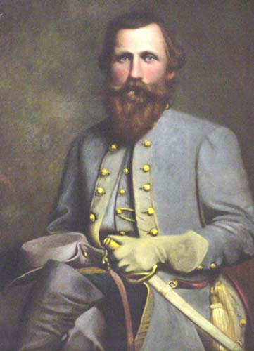 Portrait of James Ewell Brown "Jeb" Stuart. The original oil portrait is owned by the Virginia Military Institute